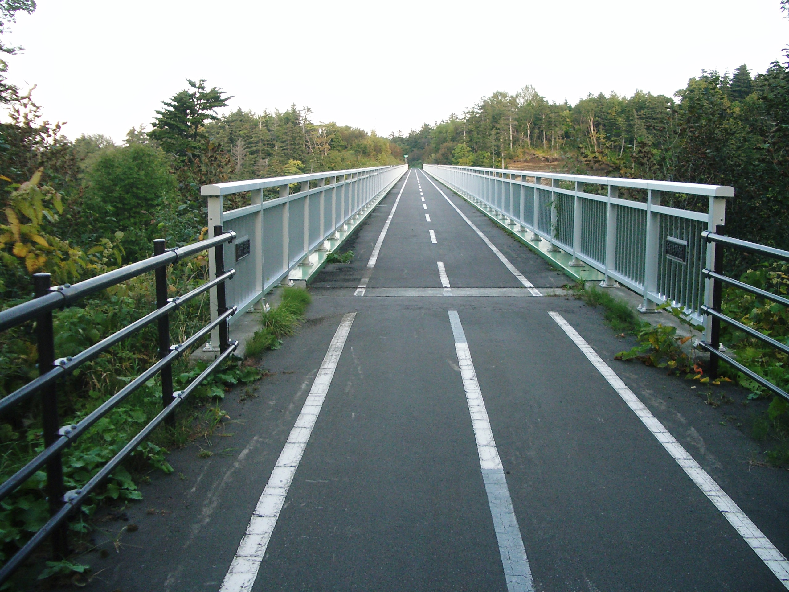 Bicycle road bridge across a deep (45 m) ravine at the Rishiri Island (Japan)